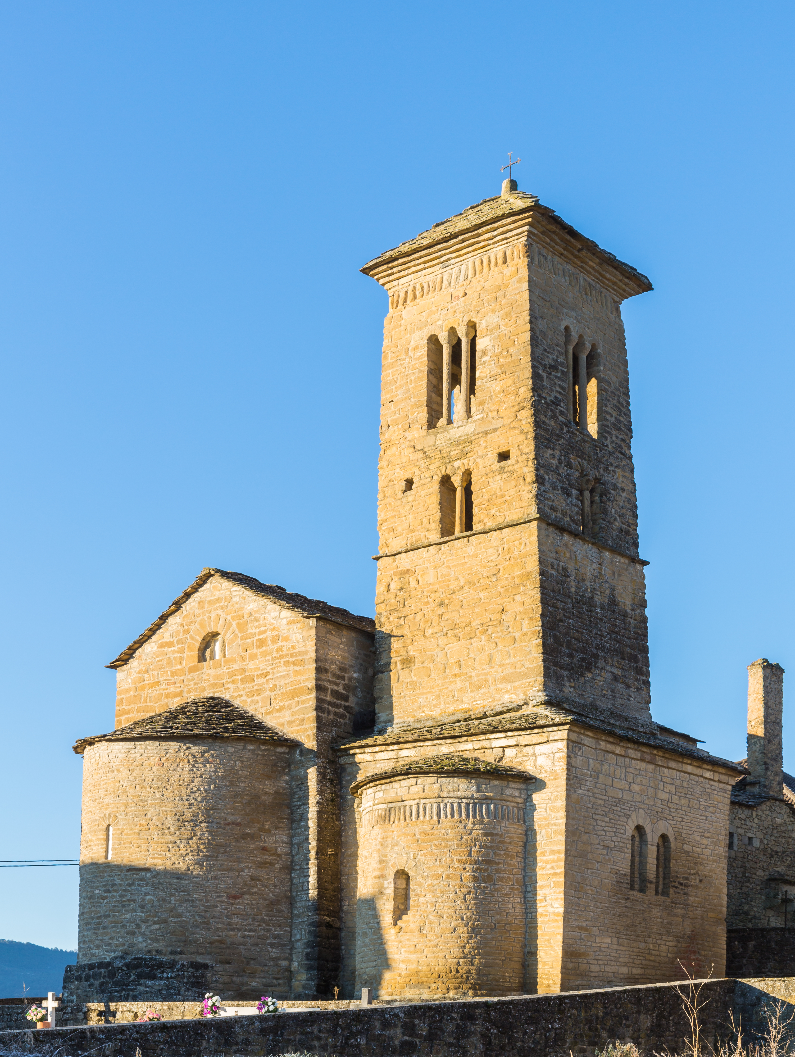 St Peter's church, Lasieso, Huesca, Spain